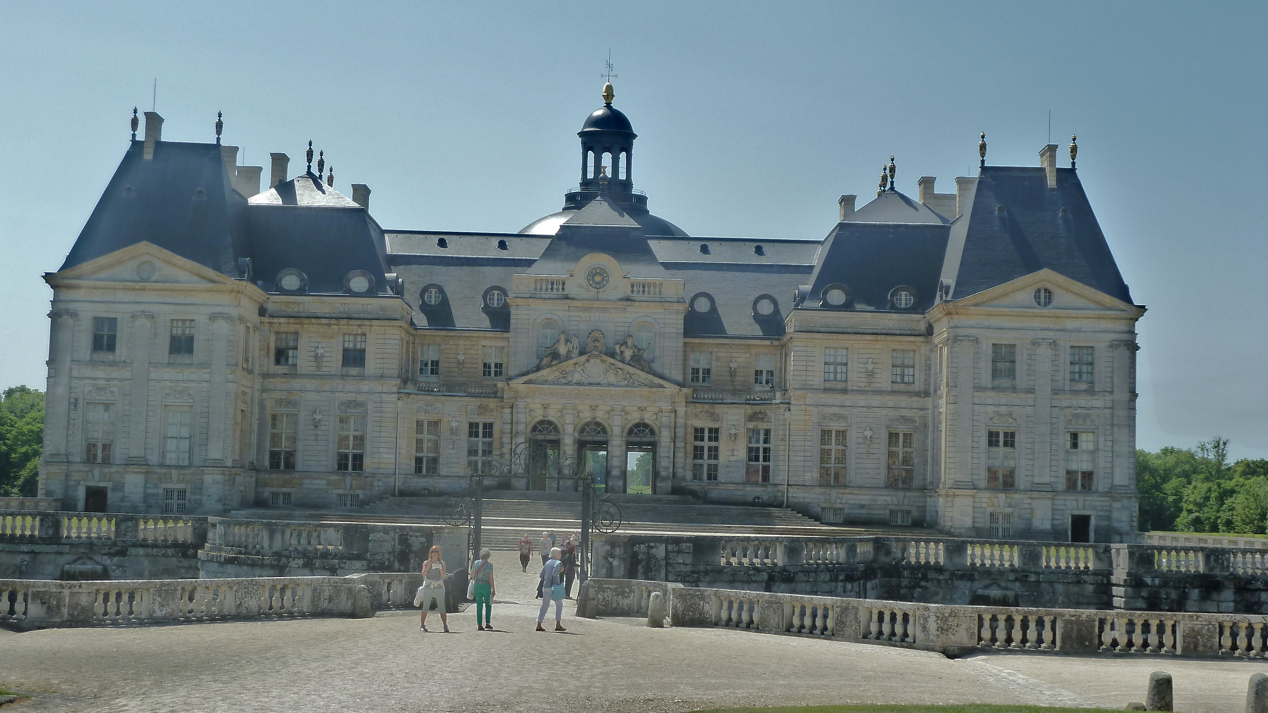 Château de Vaux-le-Vicomte, June 2015